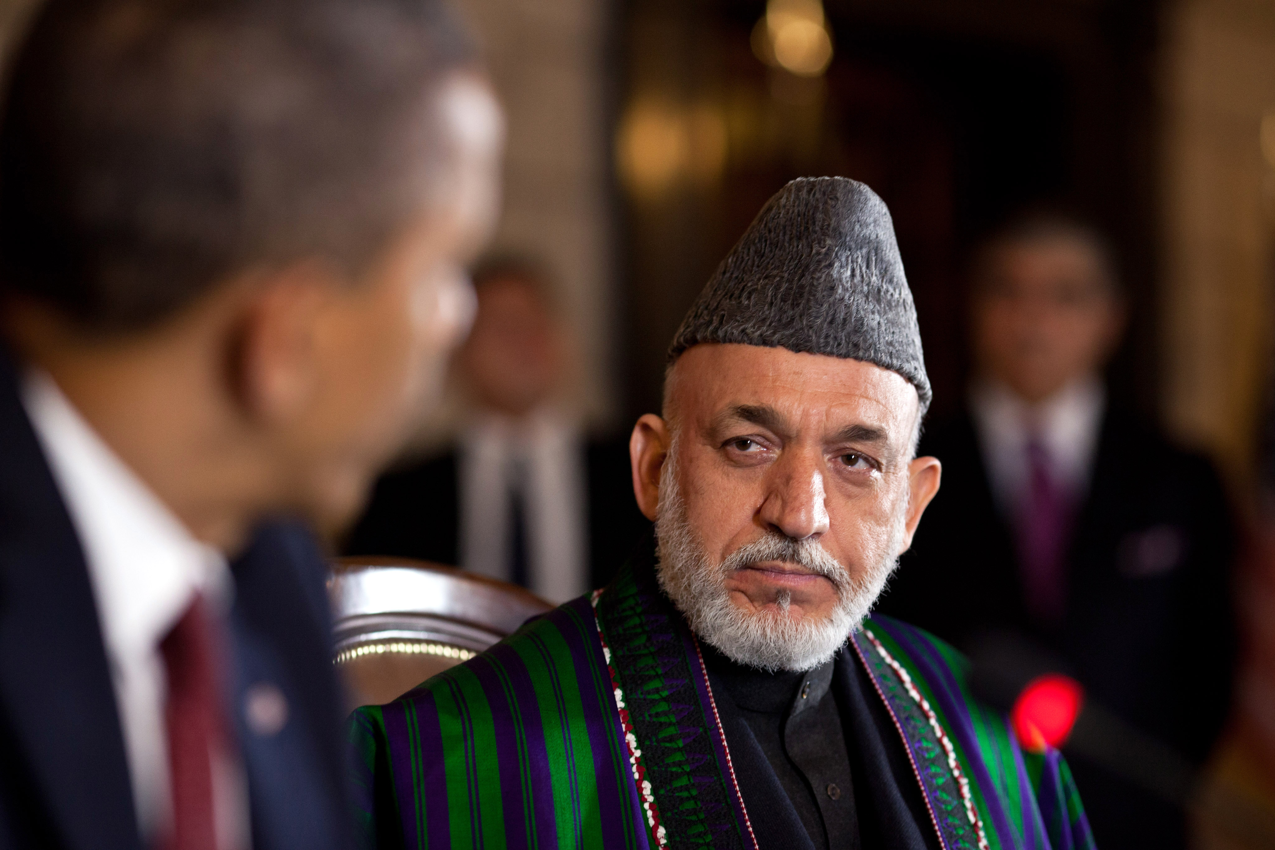 Afghan President Hamid Karzai listens as United States President Barack Obama speaks during the Enduring Strategic Partnership Agreement signing ceremony at the Presidential Palace in Kabul, Afghanistan on 2 May 2012.